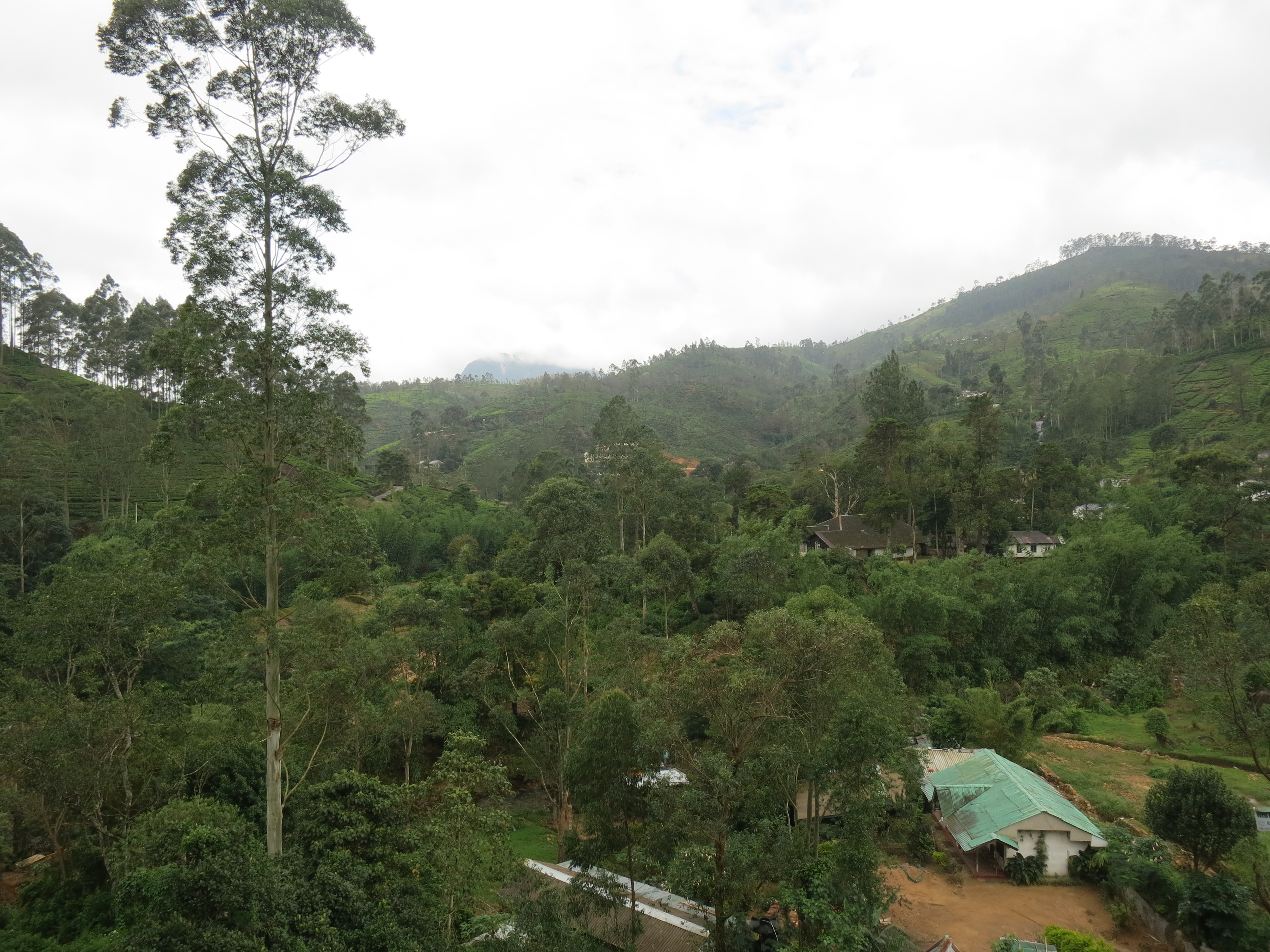 No description